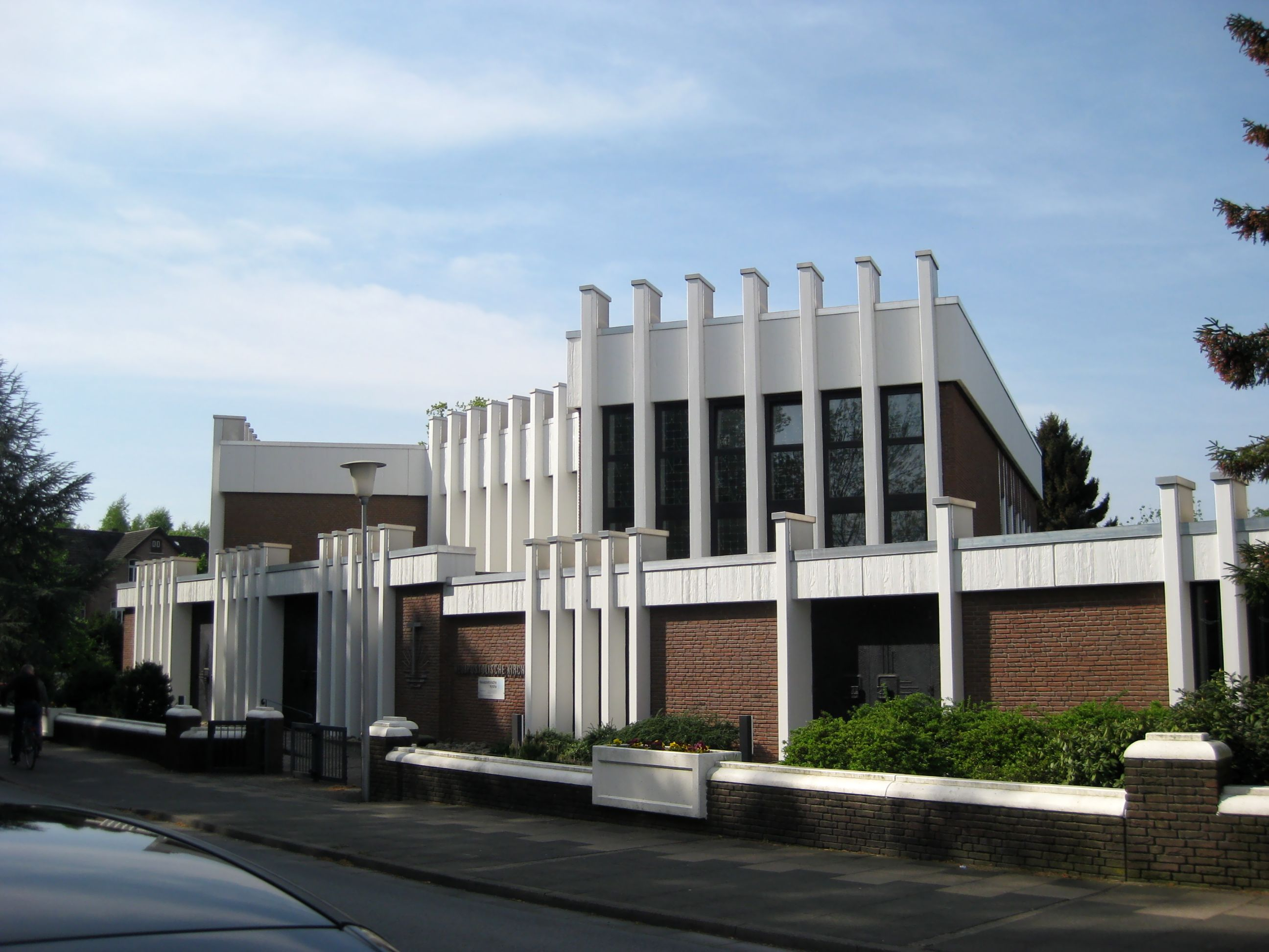 New Apostolic Church in Steinhagen -Obersteinhagen